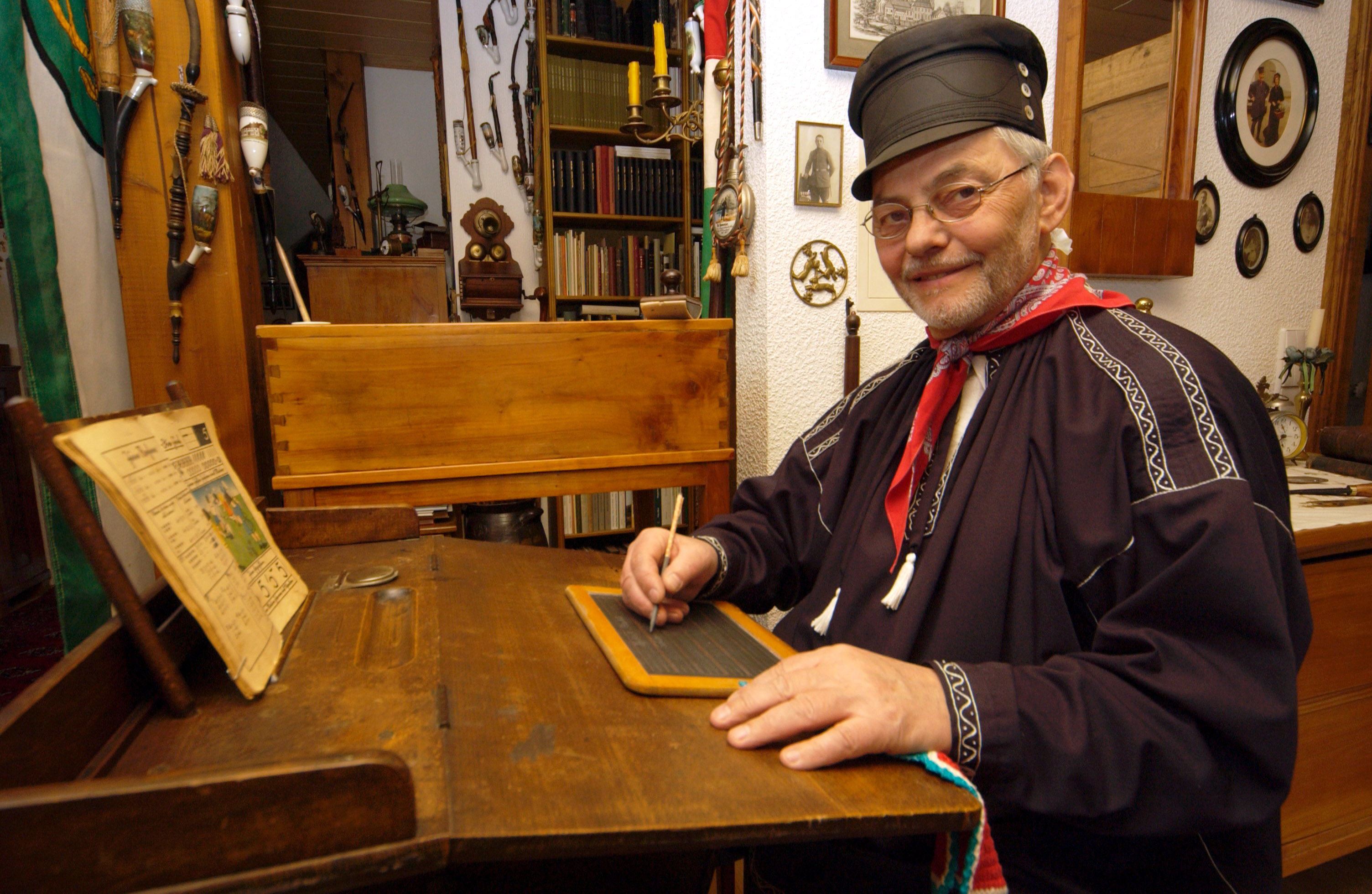 Herbert Stahl sitting on a form dressed in style of 19th century